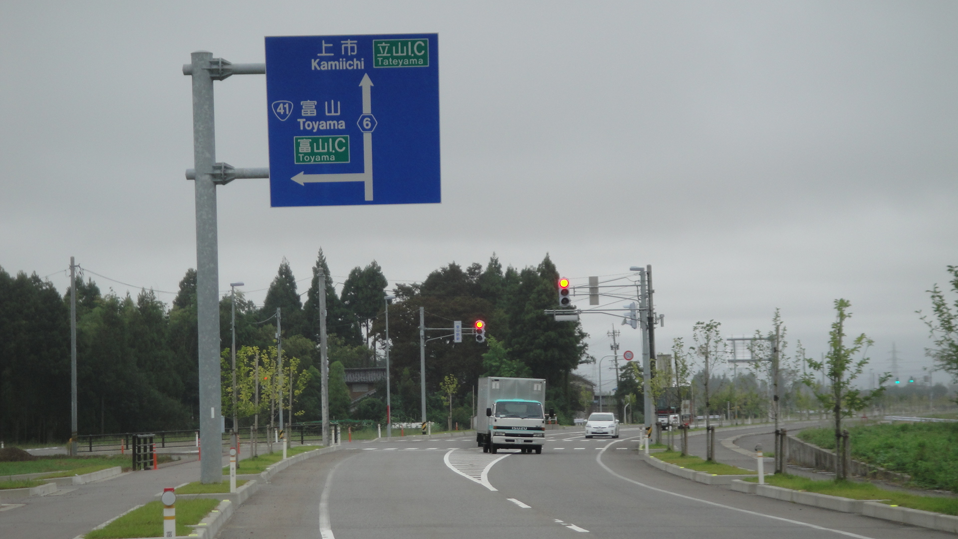 The Toyama Prefectural Road Route 6 near Toyama Alpen-mura